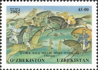 Stamps of Uzbekistan, 2002